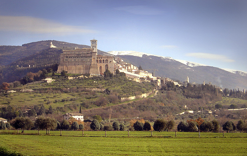 View of Assisi.